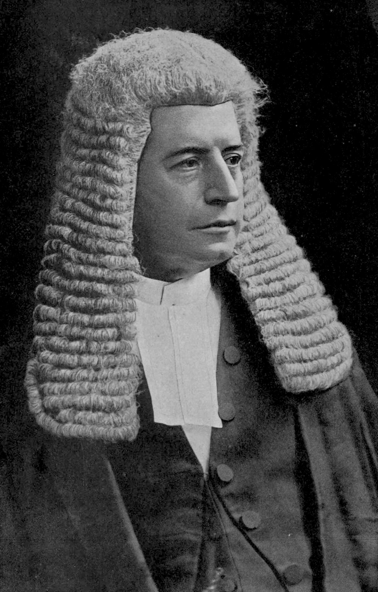 Sir Edmund Barton in the regalia of a High Court judge